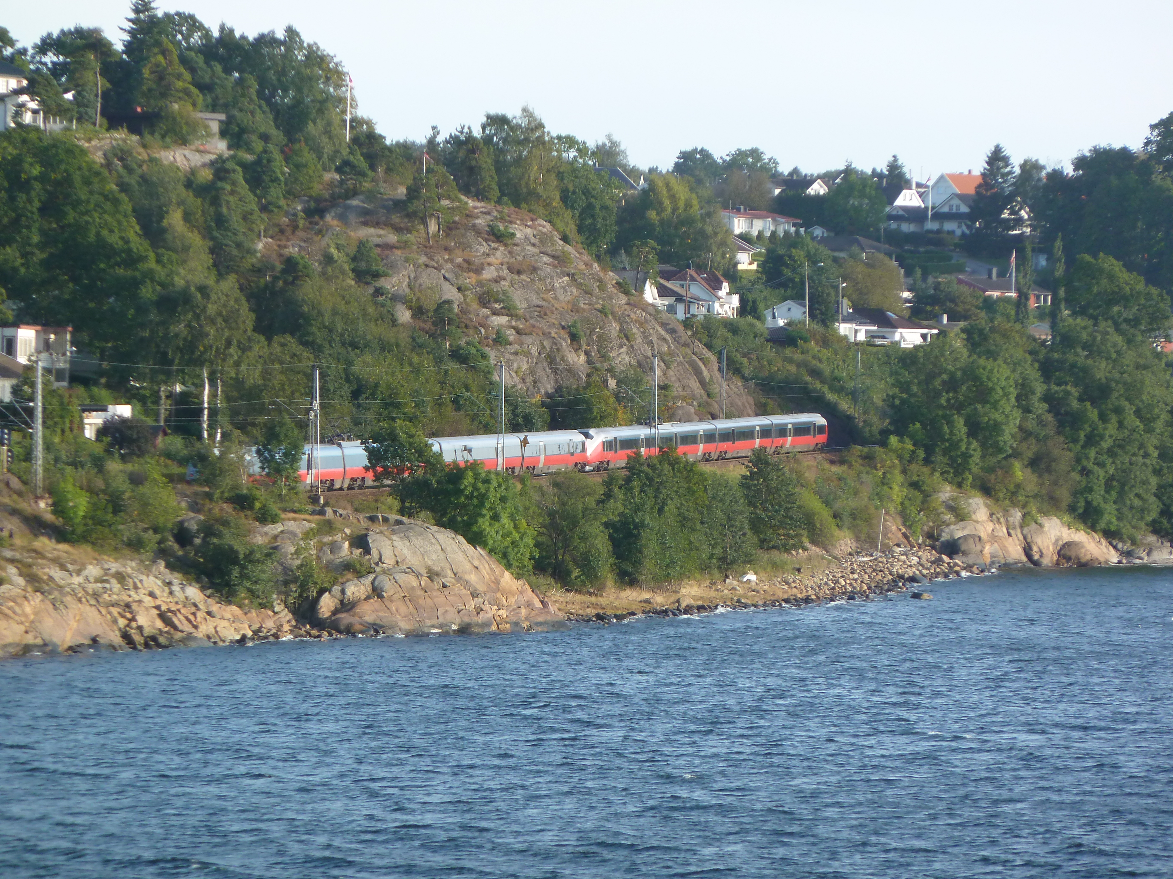 A southbound train from the state national railway company NSB on Østfoldbanen, just after leaving the station in Moss, the train passing the fjord. Picture shot from the ferry MF Bastø II.